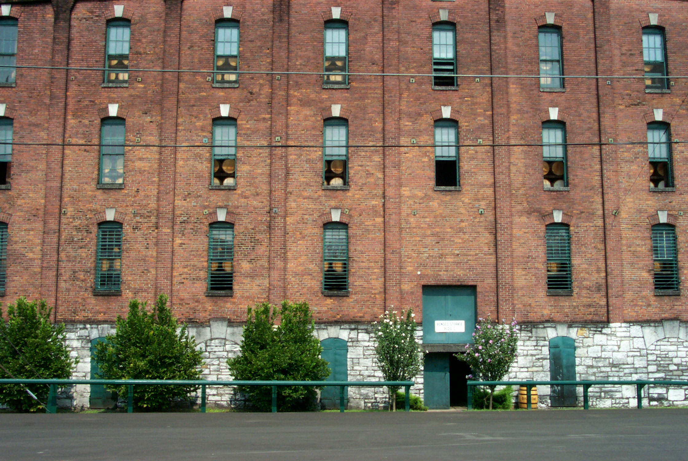 Barrel aging warehouse (Warehouse C) at Buffalo Trace Distillery, Frankfort, USA .